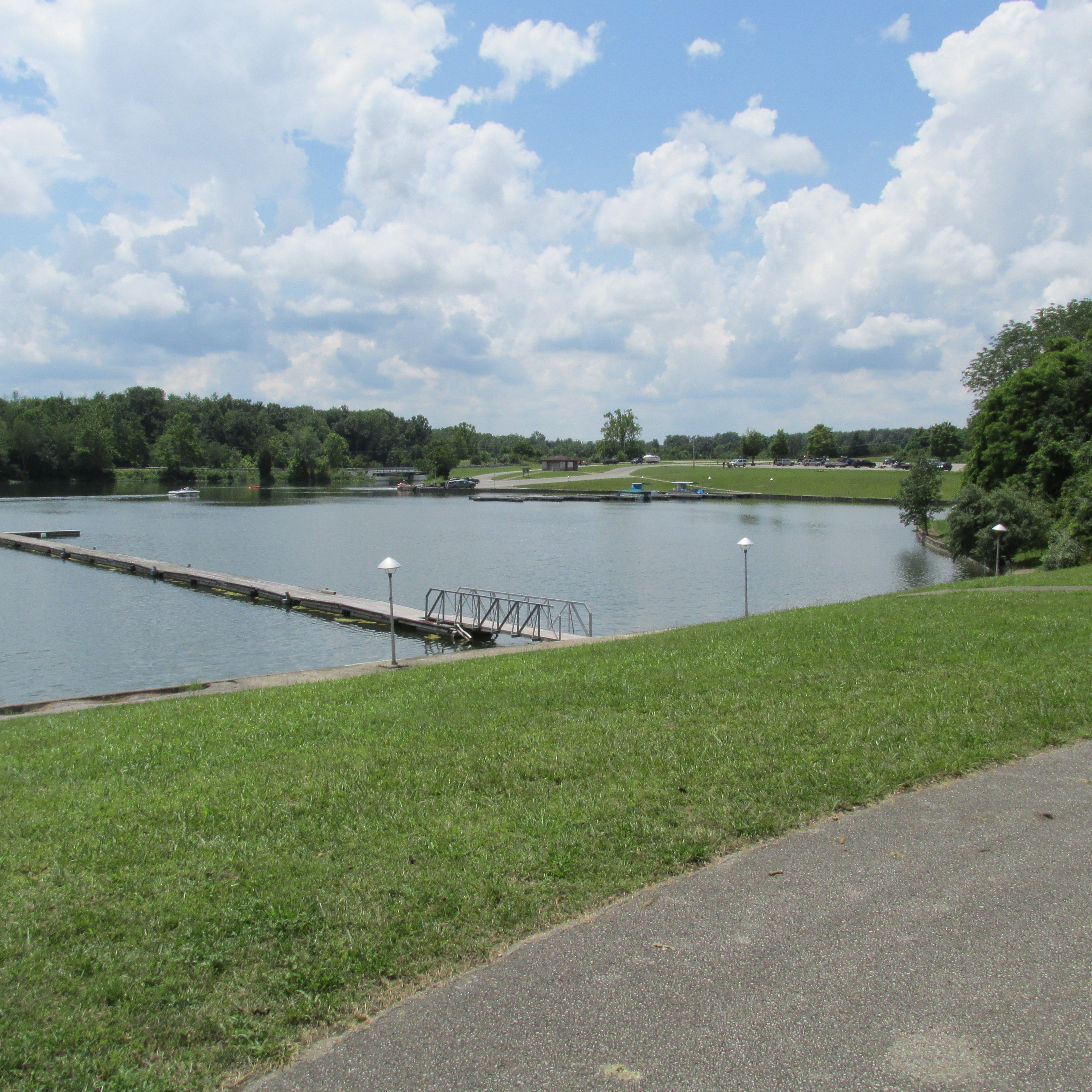 East End Overlook and Marina in Rocky Fork State Park, Ohio